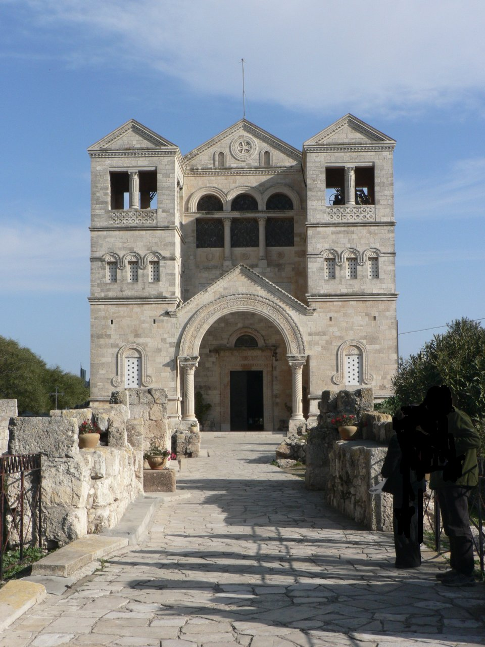 A Church in Mount Tavor Author: MathKnight